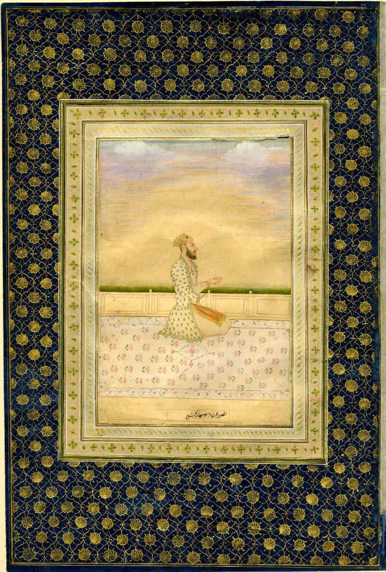 Album leaf. Portrait. Bidar Bakht. On paper. Portrait of Bidar Bakht; single-page drawing mounted on a detached album folio. Bidar Bakht was the son of Muhammad Azam and grandson of Aurangzeb. He is seated on a terrace and faces right. Drawing is bordered by concentric gilt bands and is mounted onto a page bearing gilt floral patterning. Ink, gold and opaque watercolours on paper.